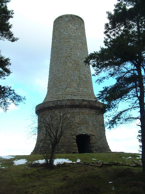 Tyndall Bruce Monument. Impressive stone-built monument erected on the Lomond Hills above Falkland in memory of a local gentleman with the memorable name of Onesiphorus Tyndall-Bruce